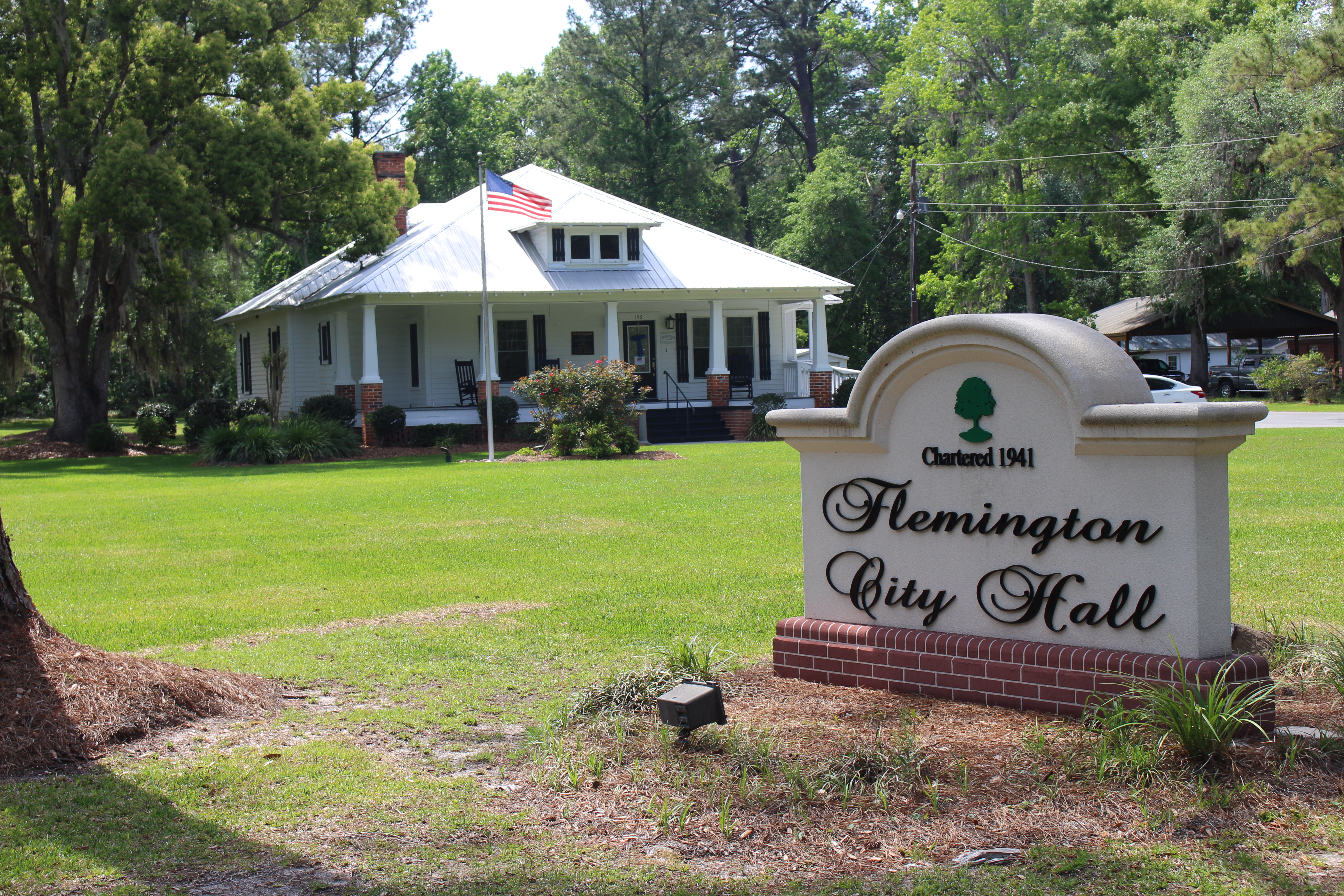 Flemtington City Hall, Flemington, Liberty County, Georgia